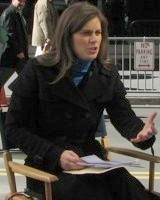 A CNBC reporter sits opposite Bear Stearns' midtown Manhattan office, reporting live on the bank's financial woes: J. P. Morgan and the federal government organized a bail-out deal but everyone knows that we've witnessed that rare and ominous thing, the collapse of a major bank. Faith, hope, and charity, and not in the good sense.